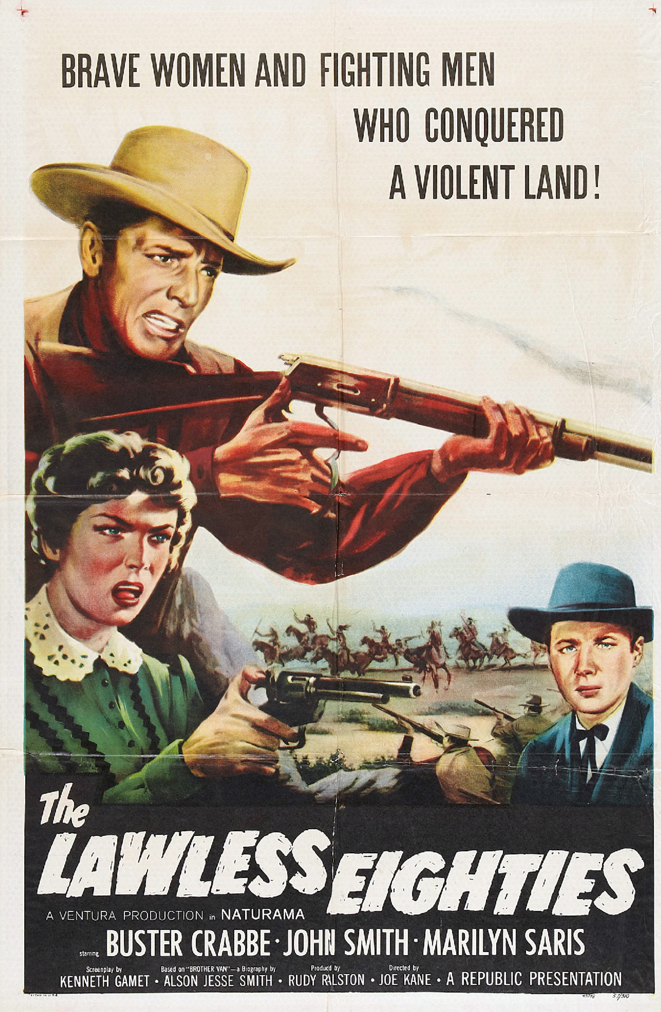 Poster for the 1957 film The Lawless Eighties. There are no copyright marks. At bottom is Litho in USA and 49748 57/310.